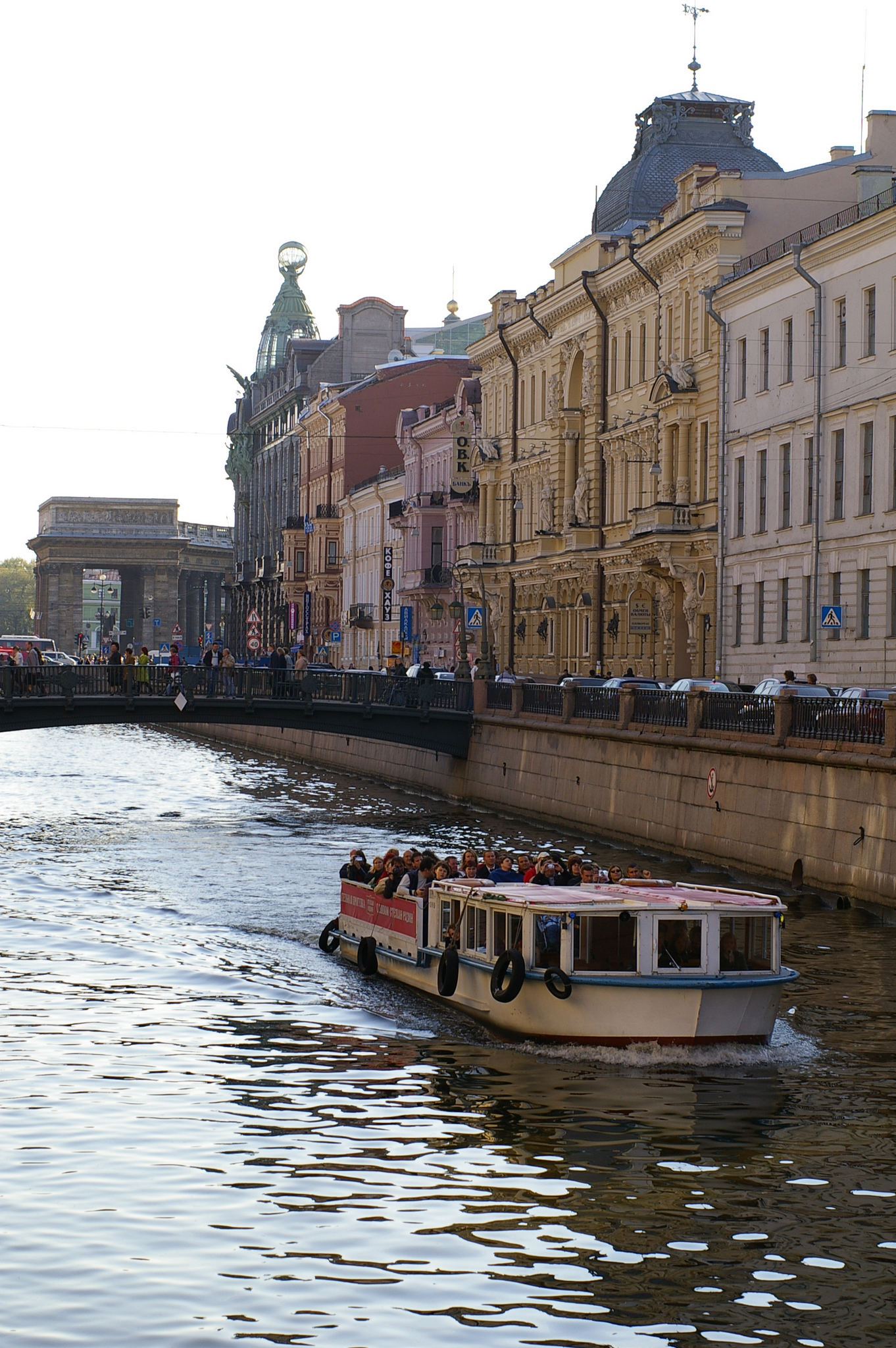 Type Fontanka ship in Saint Petersburg